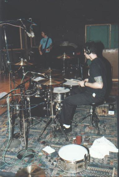 This photo is a scan of an old photo of Adam Carson (on drums) and Jade Puget (background) in the studio for the recording of the AFI album "Black Sails in the Sunset"